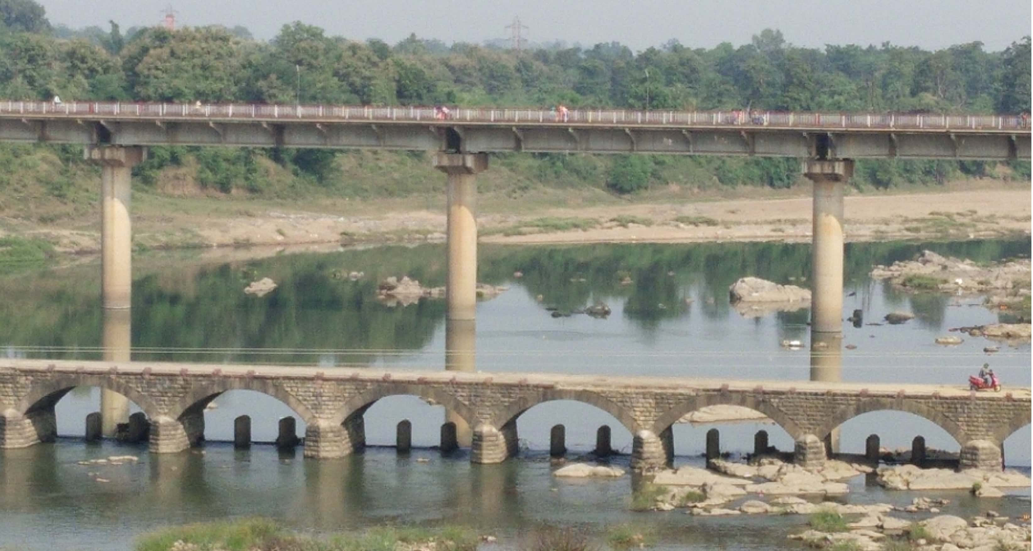 wainganga river falls in balaghat